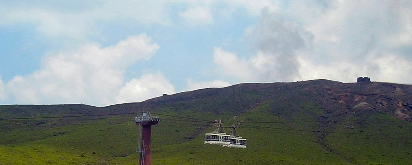 Meeting two gondolas on the way: The left one is descending to Mount Aso and the right one is ascending to the mountain.